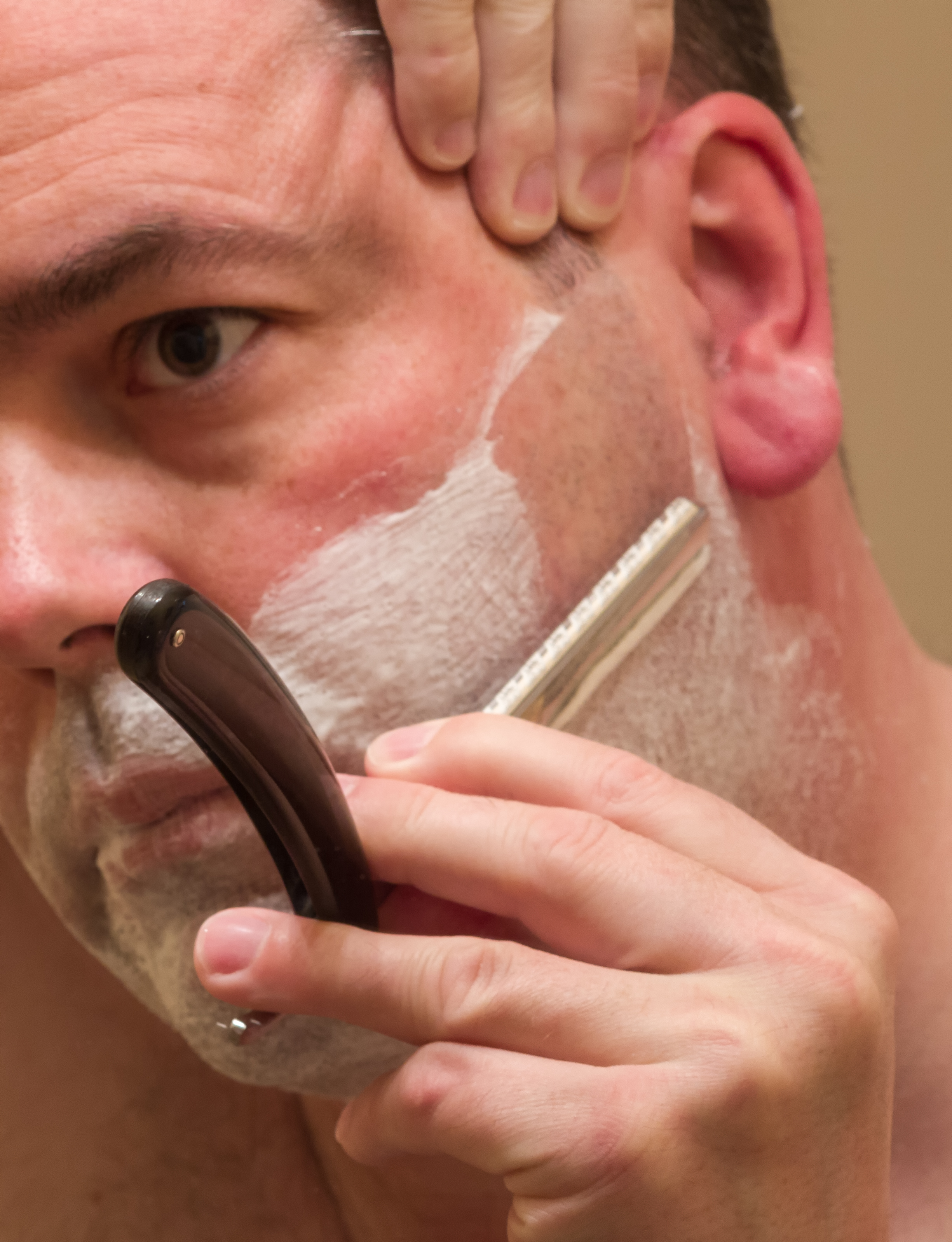 Shaving with a straight razor made by Heribert Wacker, Germany.